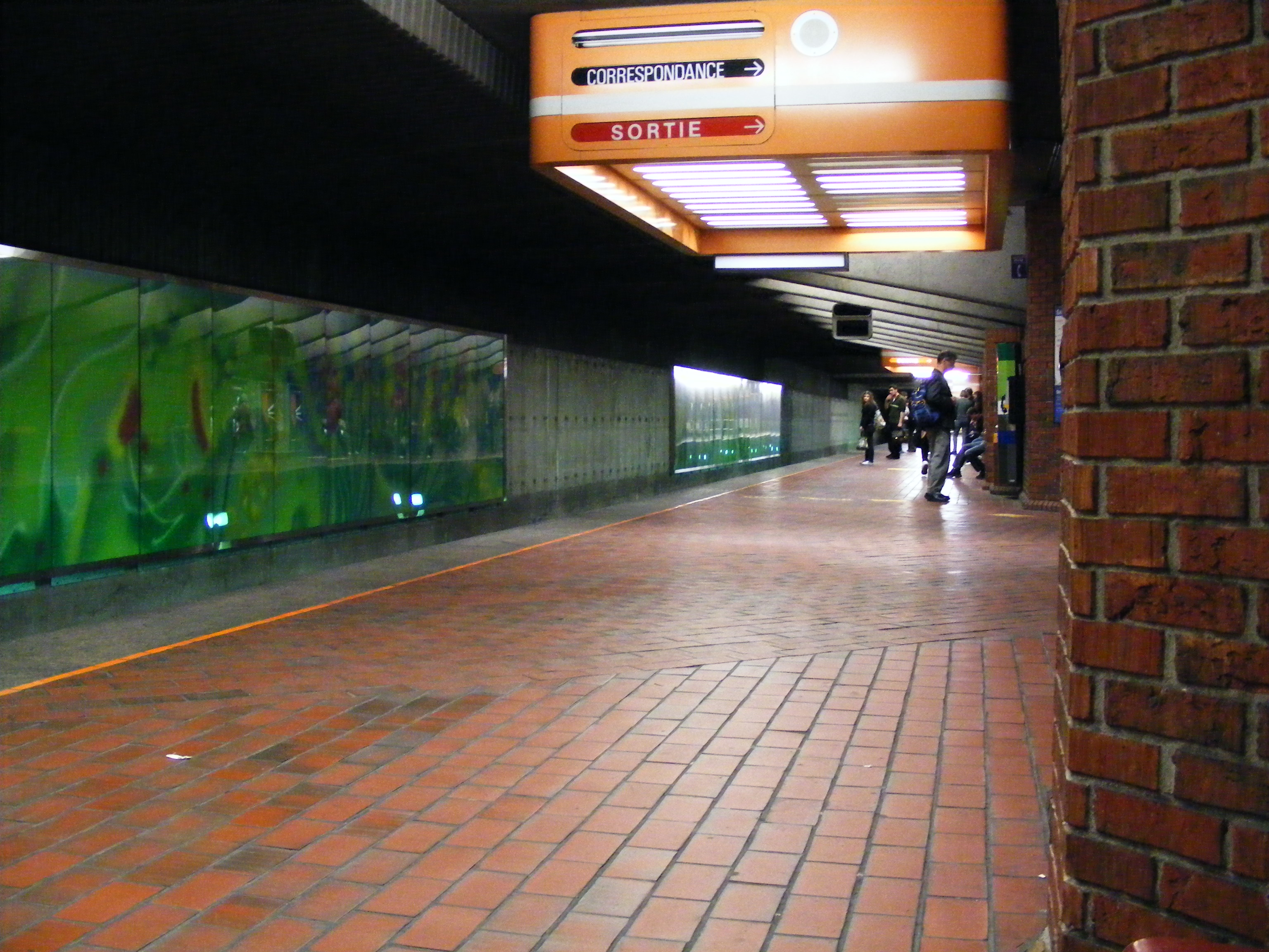 Snowdon Montreal Metro station, Line 5 Platform to Saint-Michel.